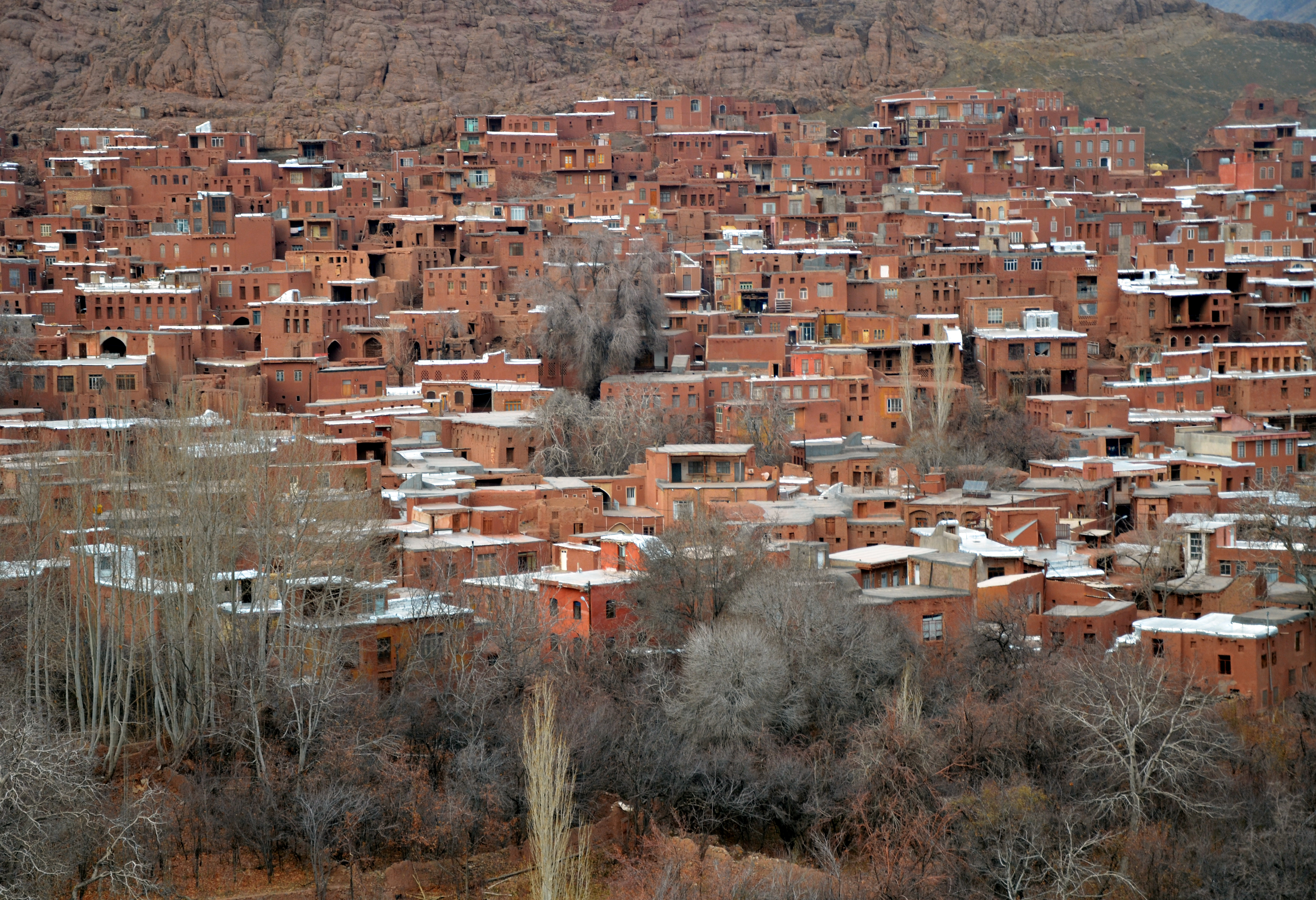 Iran - Abyaneh (The historical village)